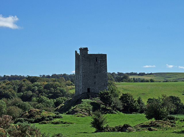 Carrigaphooca Castle Perched on a high rock overlooking the Sullane River this tall tower house commands truly panoramic views of the surrounding landscape. Built by Dermot Mor MacCarthy sometime between 1436 and 1451. The MacCarthys of Carrigaphooca were constantly engaged in internecine warfare. They sided with the Crown in 1602 and their stronghold was consequently attacked by Donal Cam O'Sullivan Beare. After a difficult siege the huge wooden door of the castle burned down. The garrison was set free and O'Sullivan Beare retrieved a chest of Spanish gold he had presented to the MacCarthys some months earlier in return for their support against the English. The castle was subsequently owned by the MacCarthys of Drishane until forfeited in 1690. [source: ].